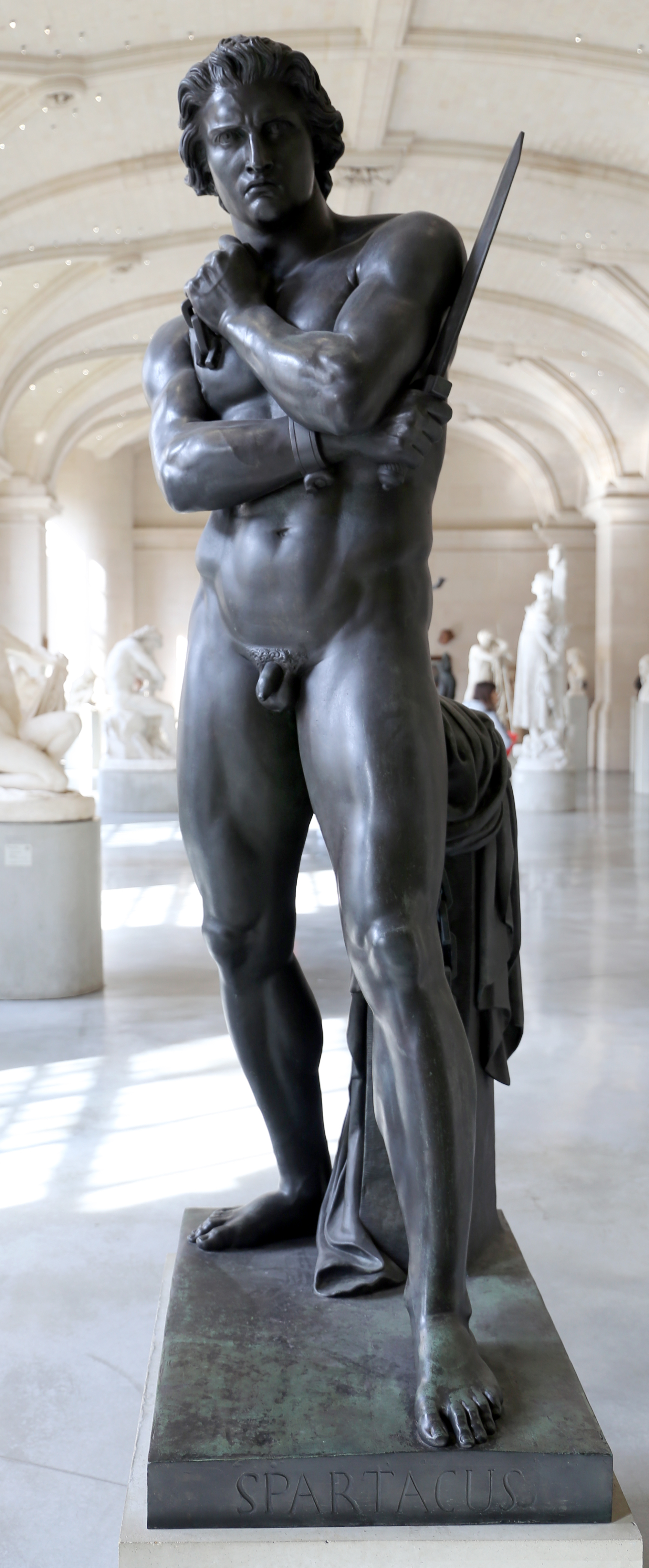 Sculptures in the Palais des Beaux-Arts de Lille